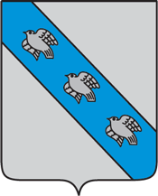 Kursk, coat of arms